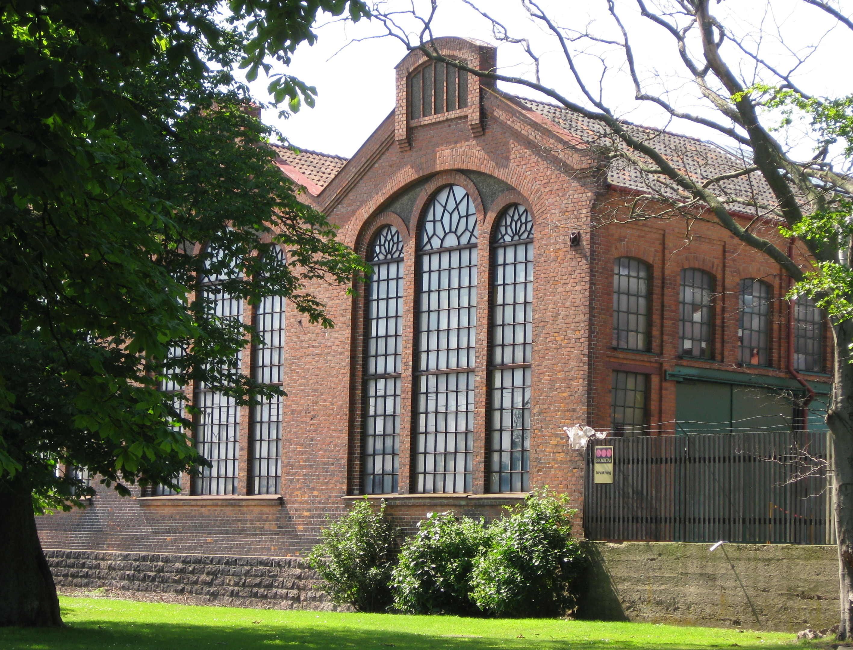 Old industrial building in Svedala, Scania, Sweden